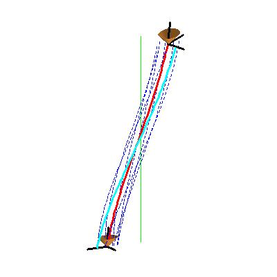 This figure illustrates the nonzero vorticity of the timelike congruence of world lines of Langevin observers, who rotate about the axis r=0 in cylindrical coordinates with angular velocity ω. In the figure, the red curve represents the world line a fiducial Langevin observer, together with two gold light cones with three frame vectors (the fourth frame vector is inessential and has been suppressed). The blue dashed curves represent the world lines of neighboring Langevin observers, which twist about the red curve. The cyan curve shows that the spatial frame vectors are rotating to radial symmetry, so the Langevin frame is spinning as well as non-inertial. This figure was created by User:Hillman using eog to convert to png format a jpg image exported from a Maple session.